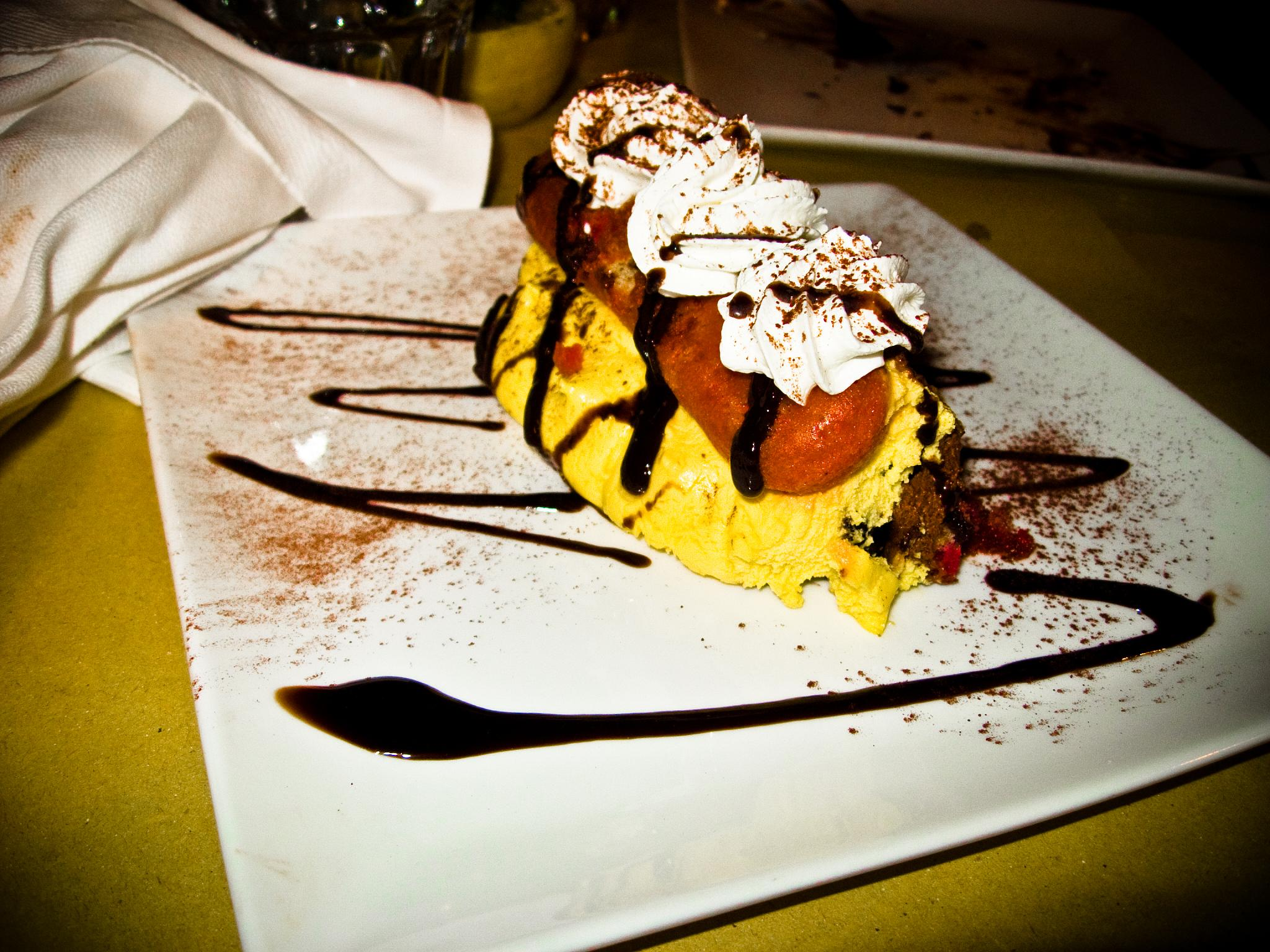 Italian, custard-based dessert, somewhat similar to English Trifle